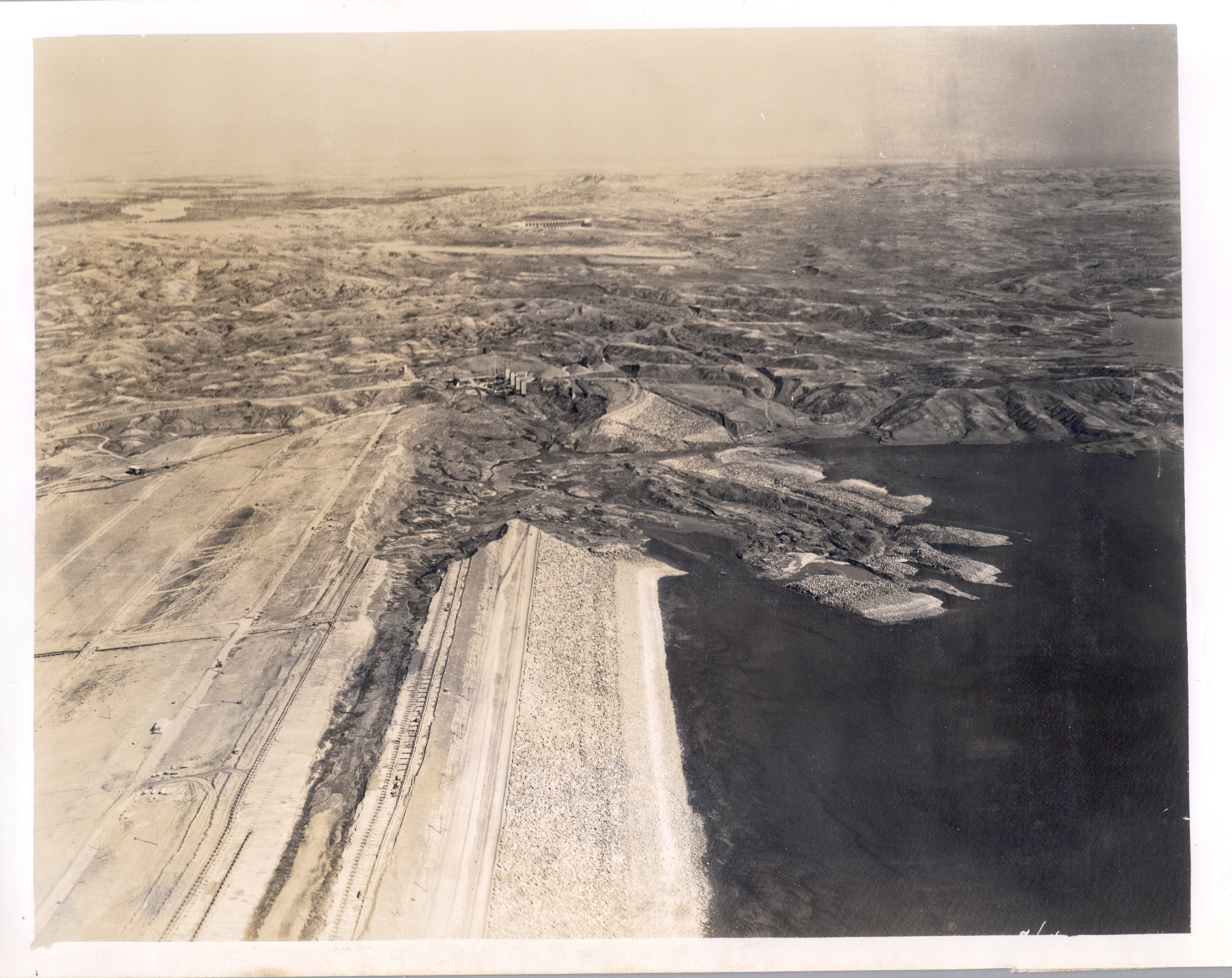 Catastrophe! The slide took the lives of 8 men on September 22, 1938. Fort Peck Dam, Fort Peck, northeast Montana.